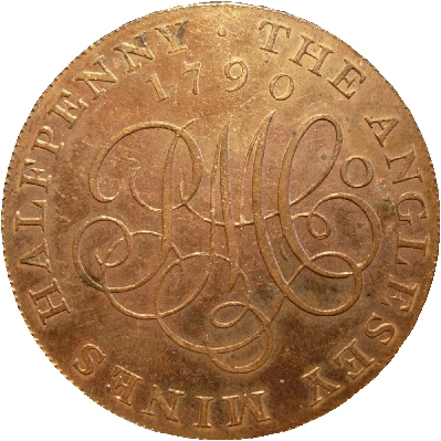 The Anglesey halfpenny, the first steam-struck token using a collar